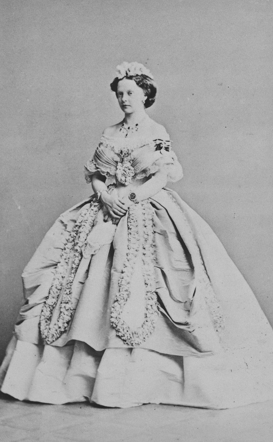 Princess Alexandrine of Prussia (1842-1906), youngest daughter of Prince Albert of Prussia and Princess Marianne of the Netherlands.